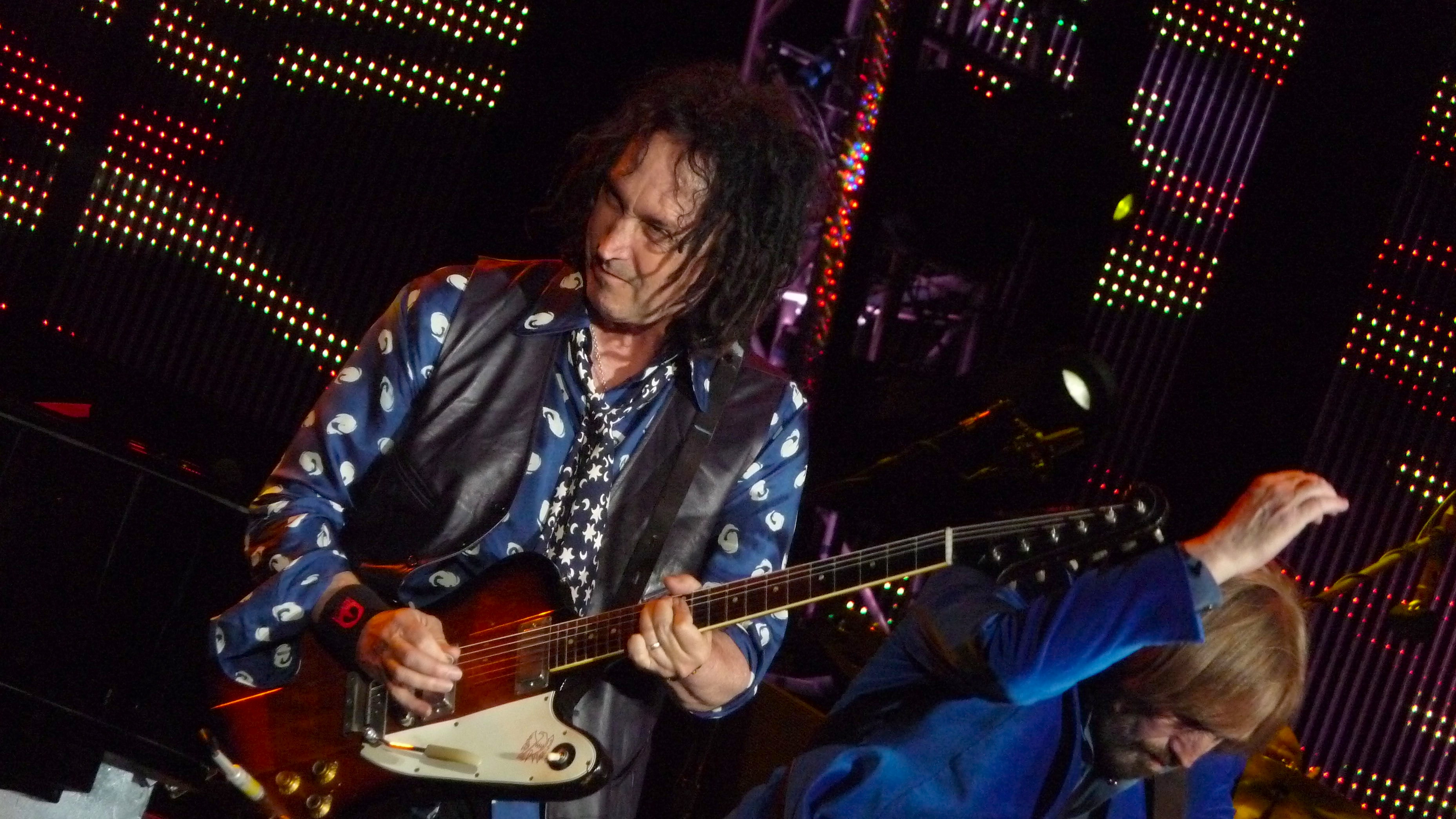 The Gorge. June 12, 2010